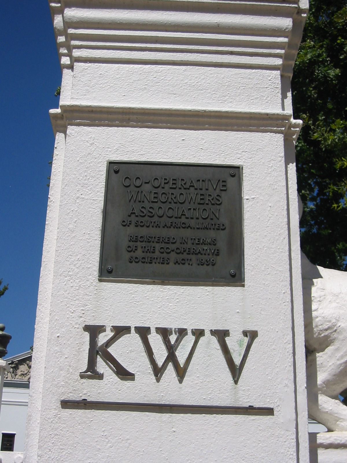 The abbreviation KWV stands for Kooperatieve Wijnbouwers Vereniging. It was founded as a cooperative of South African winegrowers.